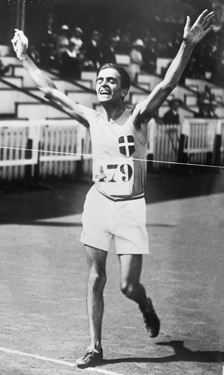 Italian athlete, winner of three gold medals in the Olympic Games, Ugo Frigerio